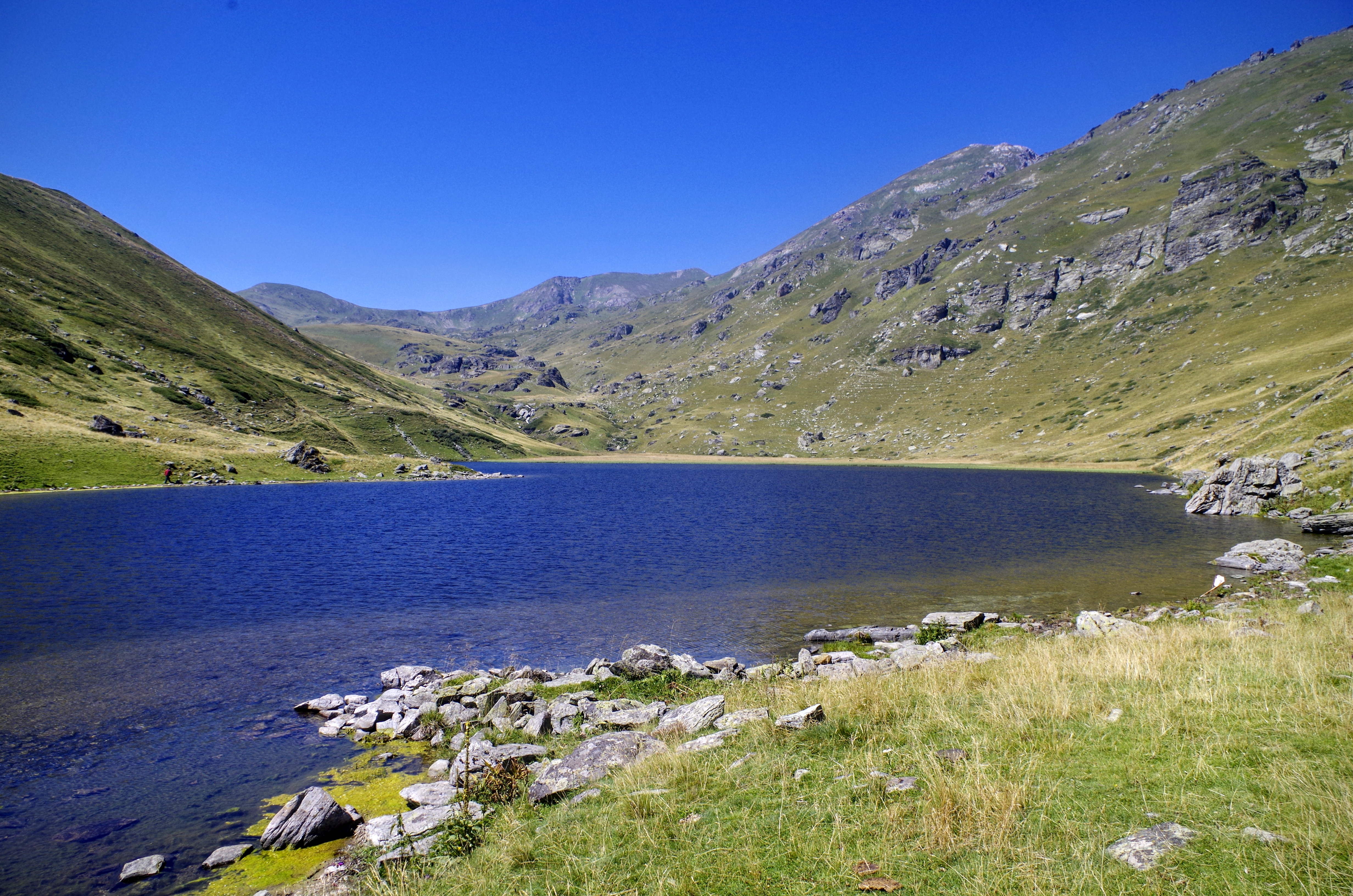 Glacial Bogovinje Lake on Shar Mountain, Macedonia